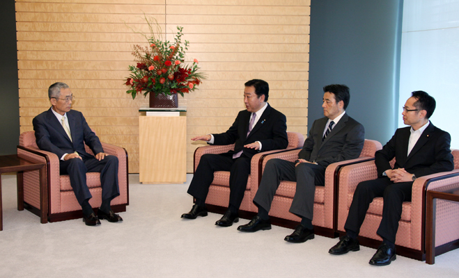 Kōichi Endō, Chief Information Officer of the Cabinet Secretariat, talked with Yoshihiko Noda, Prime Minister, Katsuya Okada, Minister of State for Government Revitalization, and Motohisa Furukawa, Minister of State for Science and Technology Policy, at the Prime Minister's Official Residence in Chiyoda Ward, Tōkyō Metropolis on September 6, 2012.